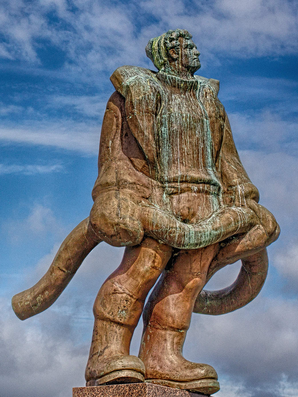 A hero is looking into the blue sky